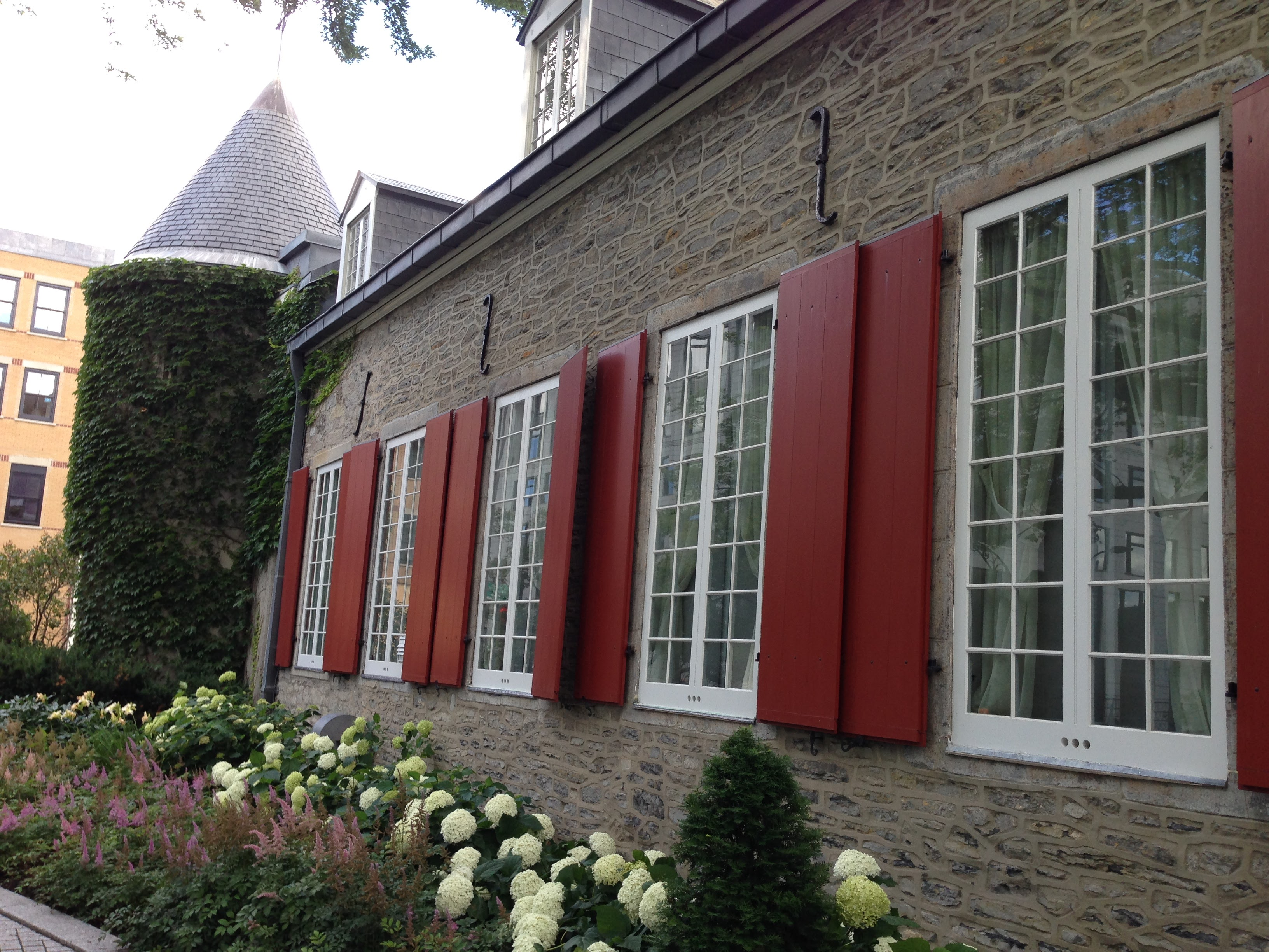 Château Ramezay, in Old Montréal